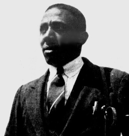 Learie Constantine in Australia, November 1930